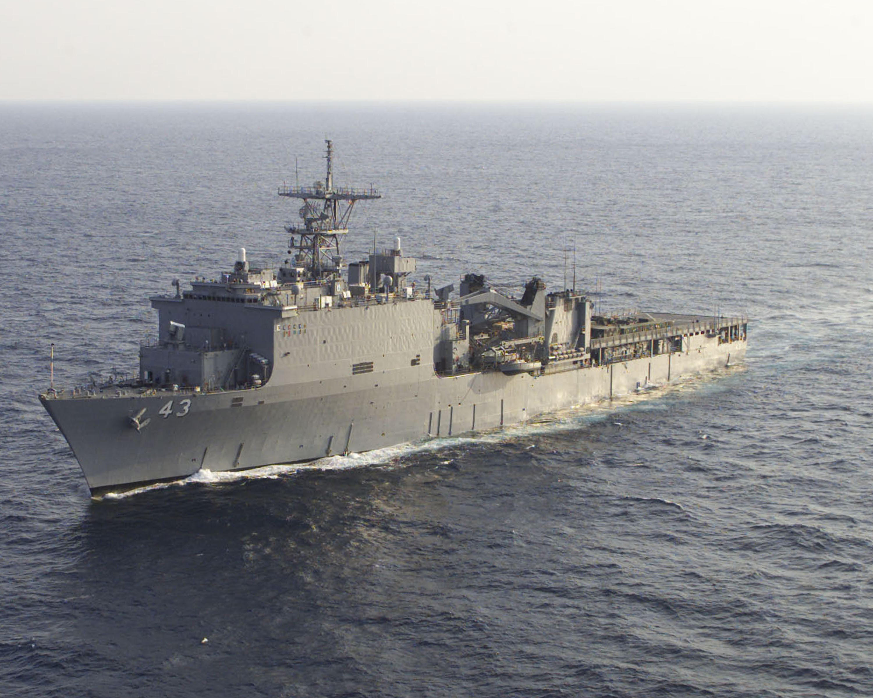 At sea with USS Fort McHenry (LSD-43) Mar. 9, 2002 — USS Fort McHenry participates in Blue-Green Workups, the semi-annual amphibious integration training period between the USS Essex (LHD-2) Amphibious Ready Group (ARG) and the embarked 31st Marine Expeditionary Unit (MEU). Fort McHenry is forward deployed to Sasebo, Japan.